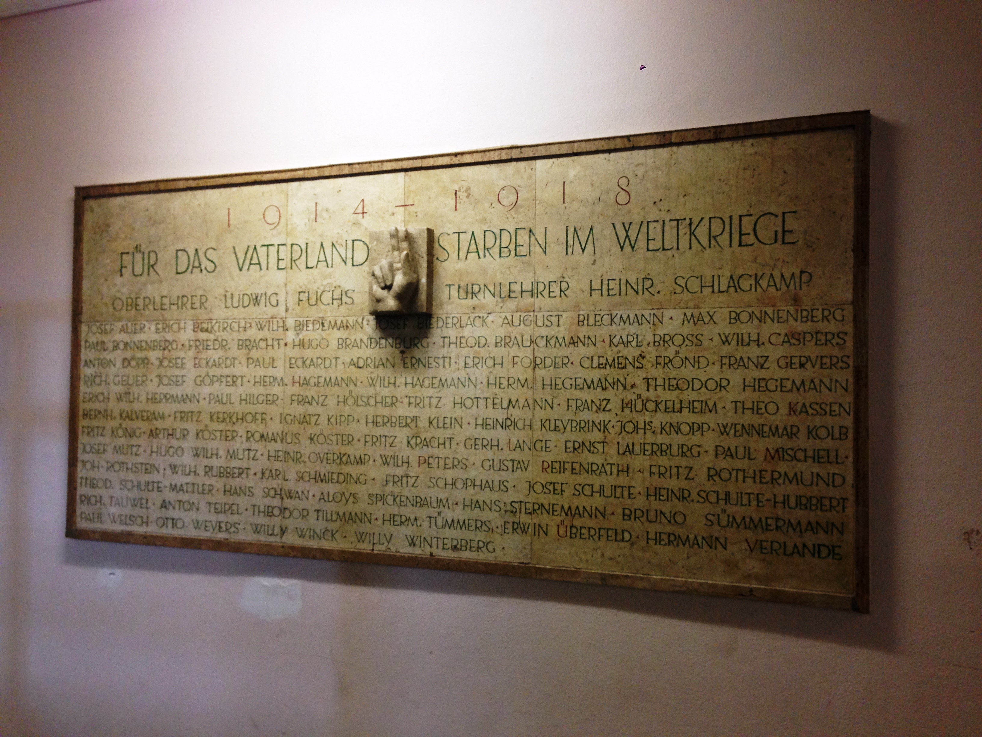 Memorial for alumni and teachers killed in action during WW I